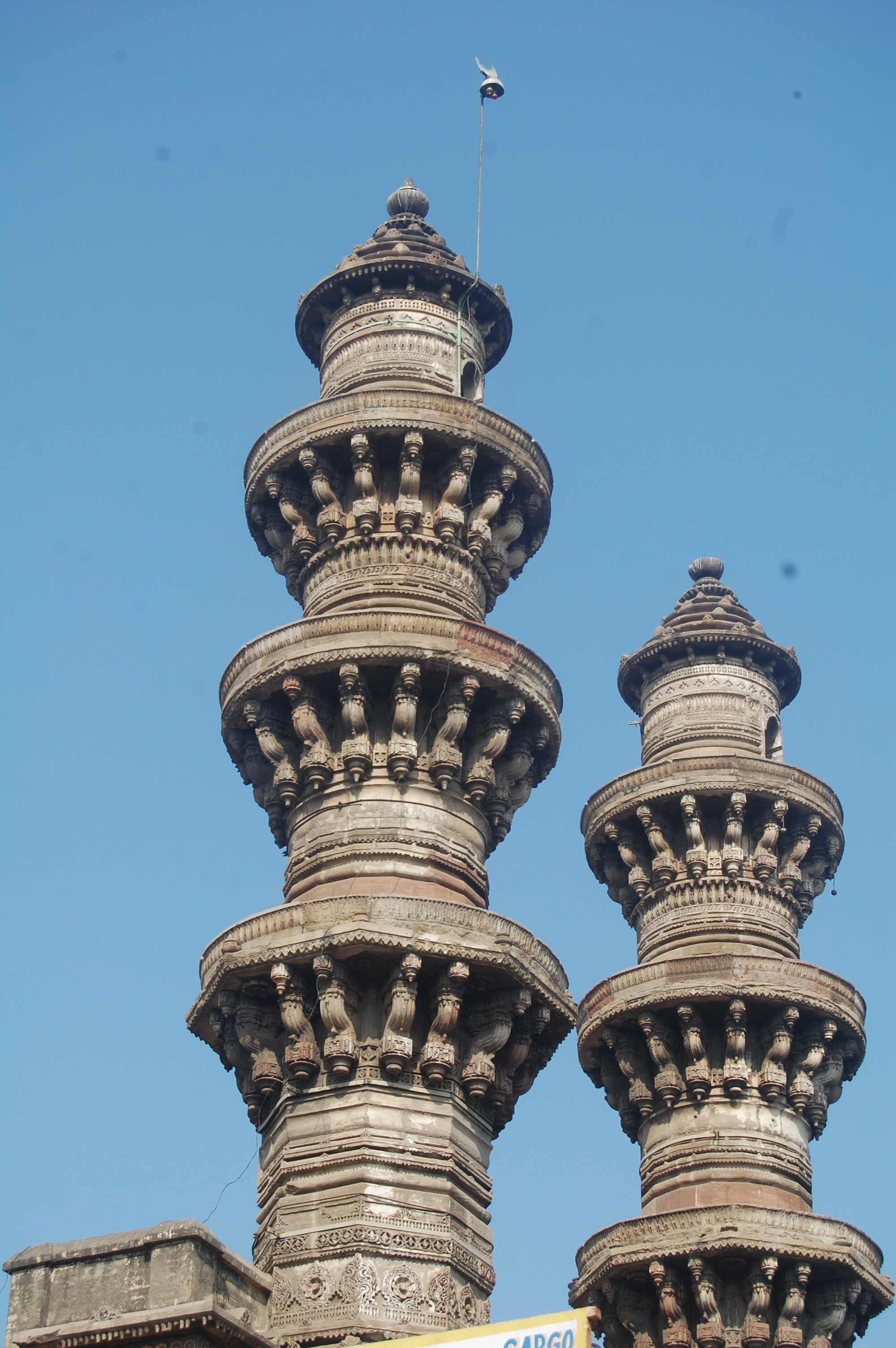 Zulta Minar, Sarangpur, Ahmedabad